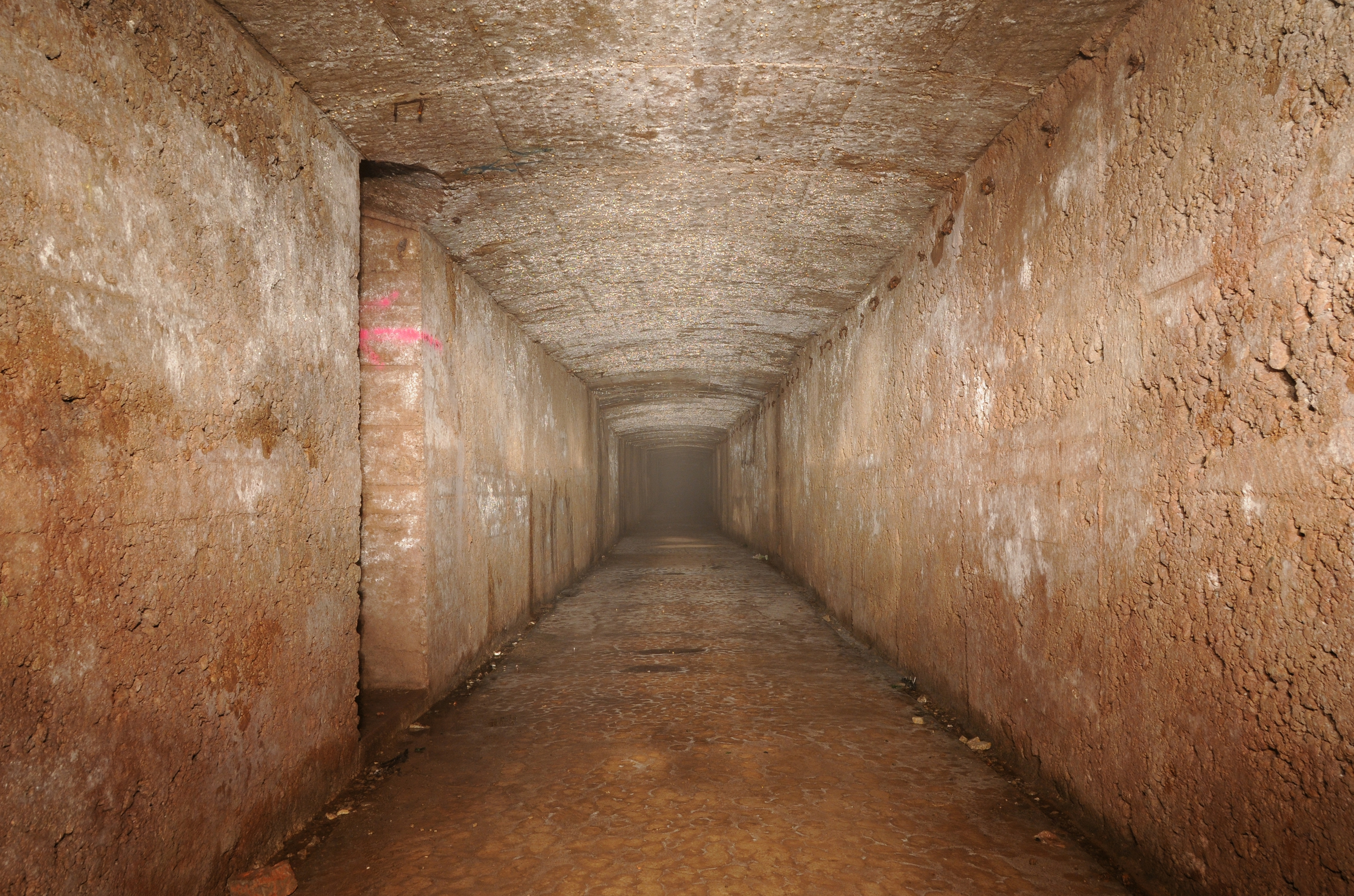 Roppe fortifications, underground.